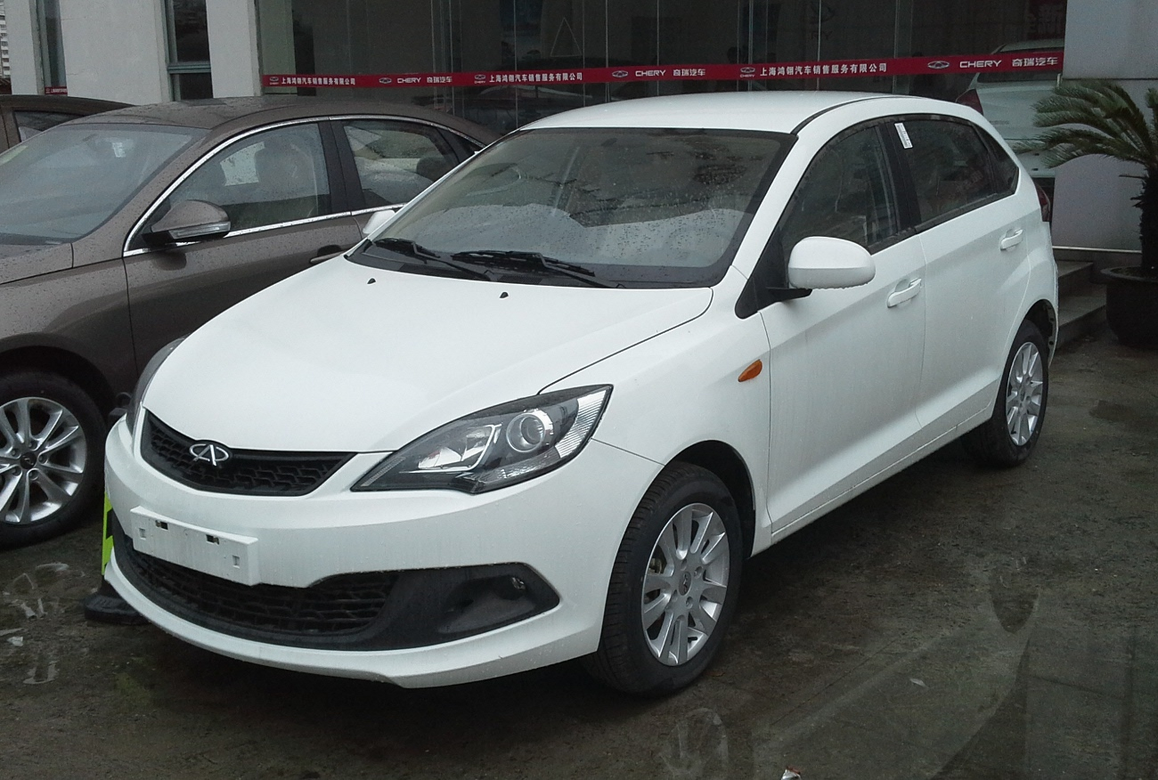 Chery Fulwin 2 hatch facelift photographed in Shanghai, China.